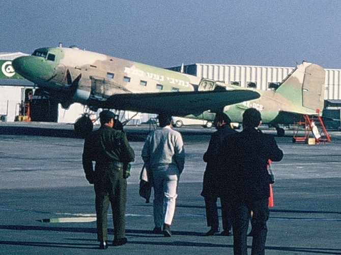 DC-3 of Oil Lines LTD at Abou Redis